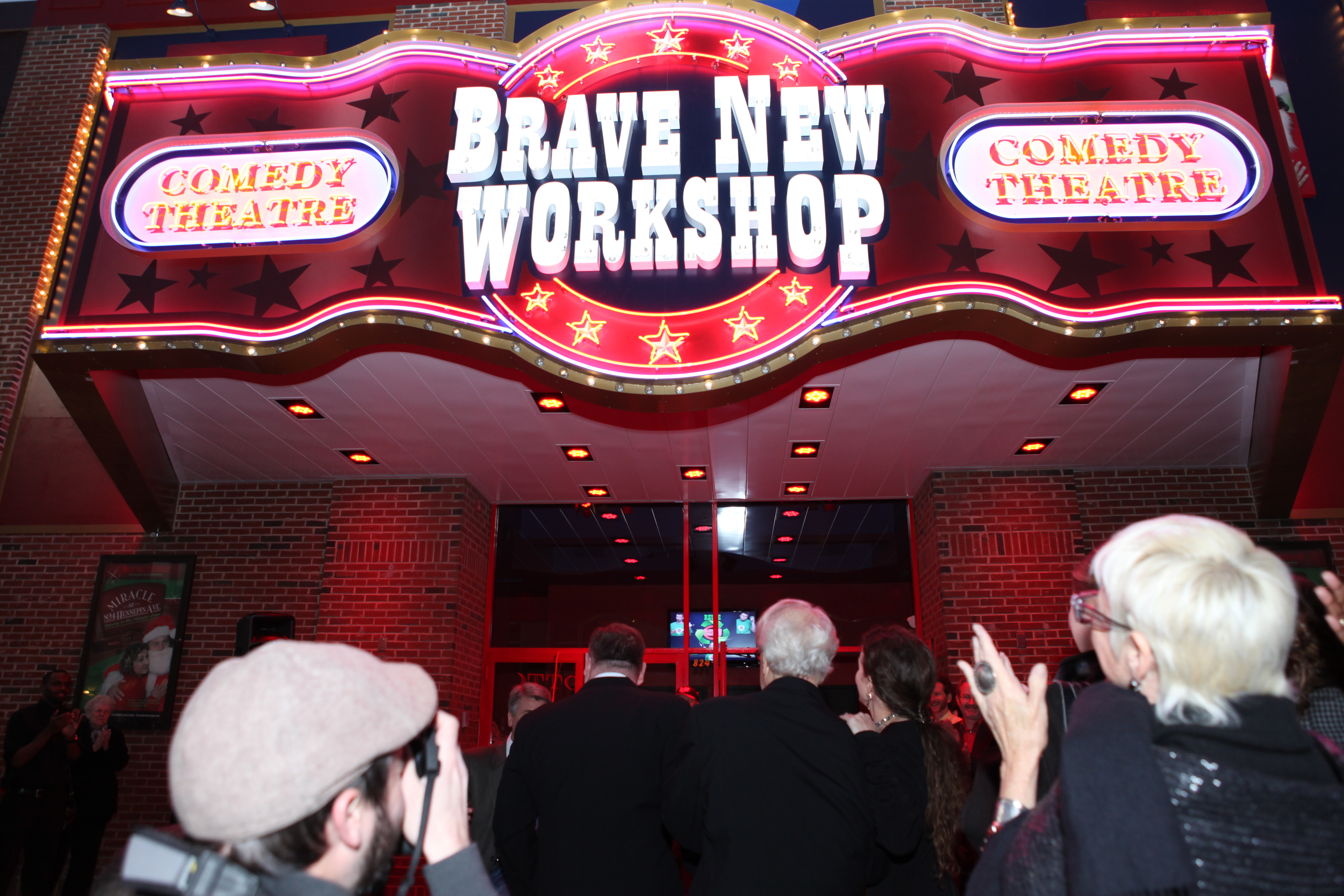 The marquee out in front of the Brave New Workshop, at 824 Hennepin Ave S